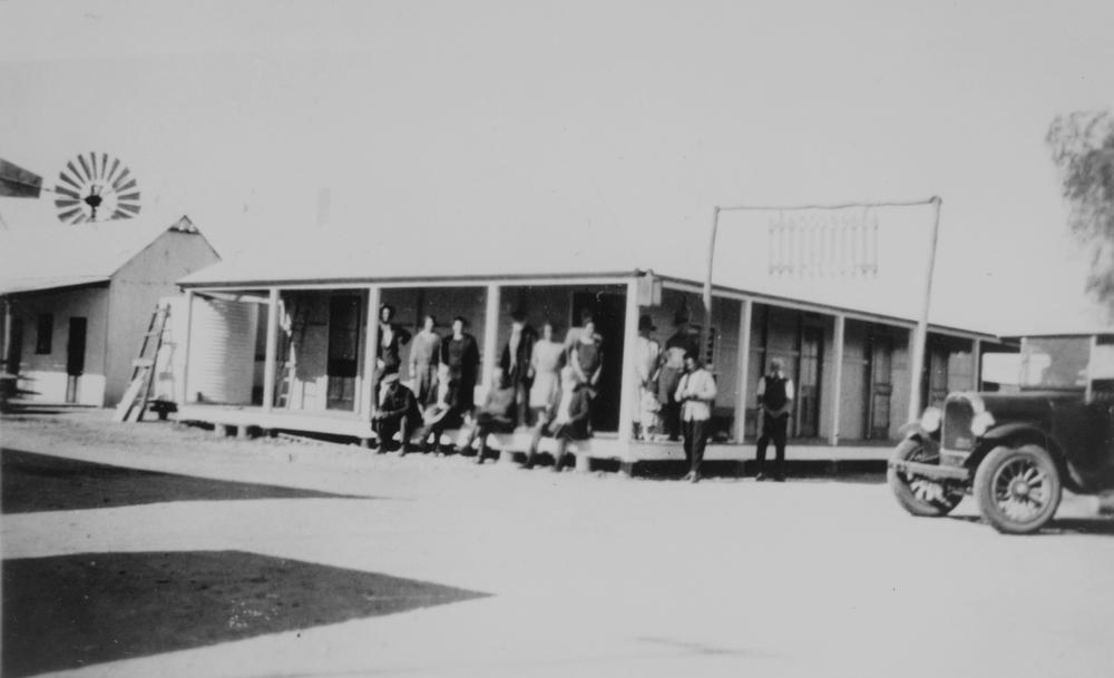 Patrons of the Green Gate Hotel on the verandah, Adavale, 1928 H. J. Richarson was posted to Adavale as a school teacher around this time. (Description supplied with photograph.).